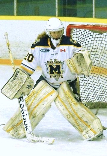 This photo was taken by Devan Mighton during the 2013-14 PWHL season.